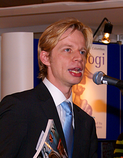 Clement Kjersgaard, a Danish journalist, writer and talkshow host.